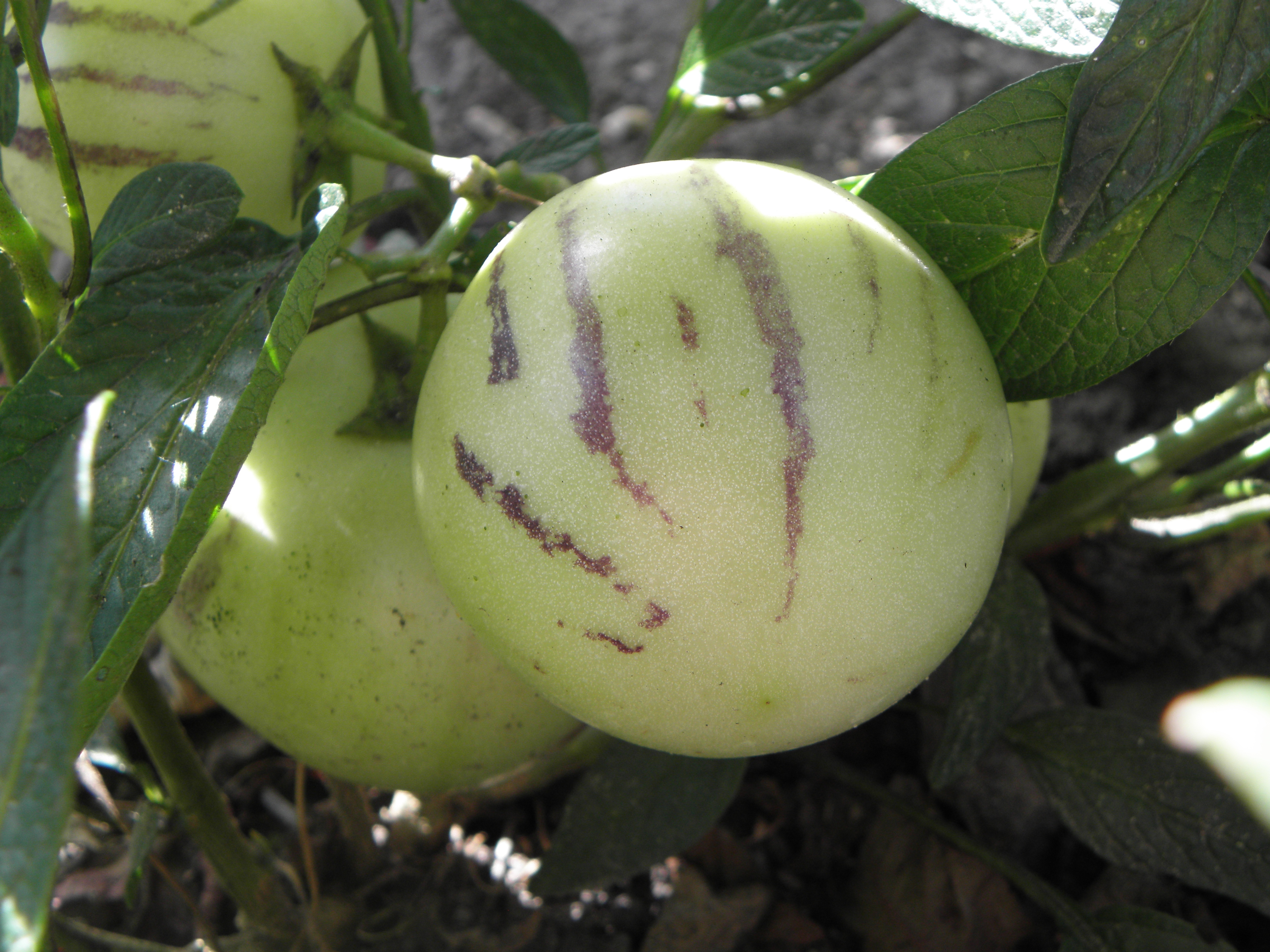 sweet pepino